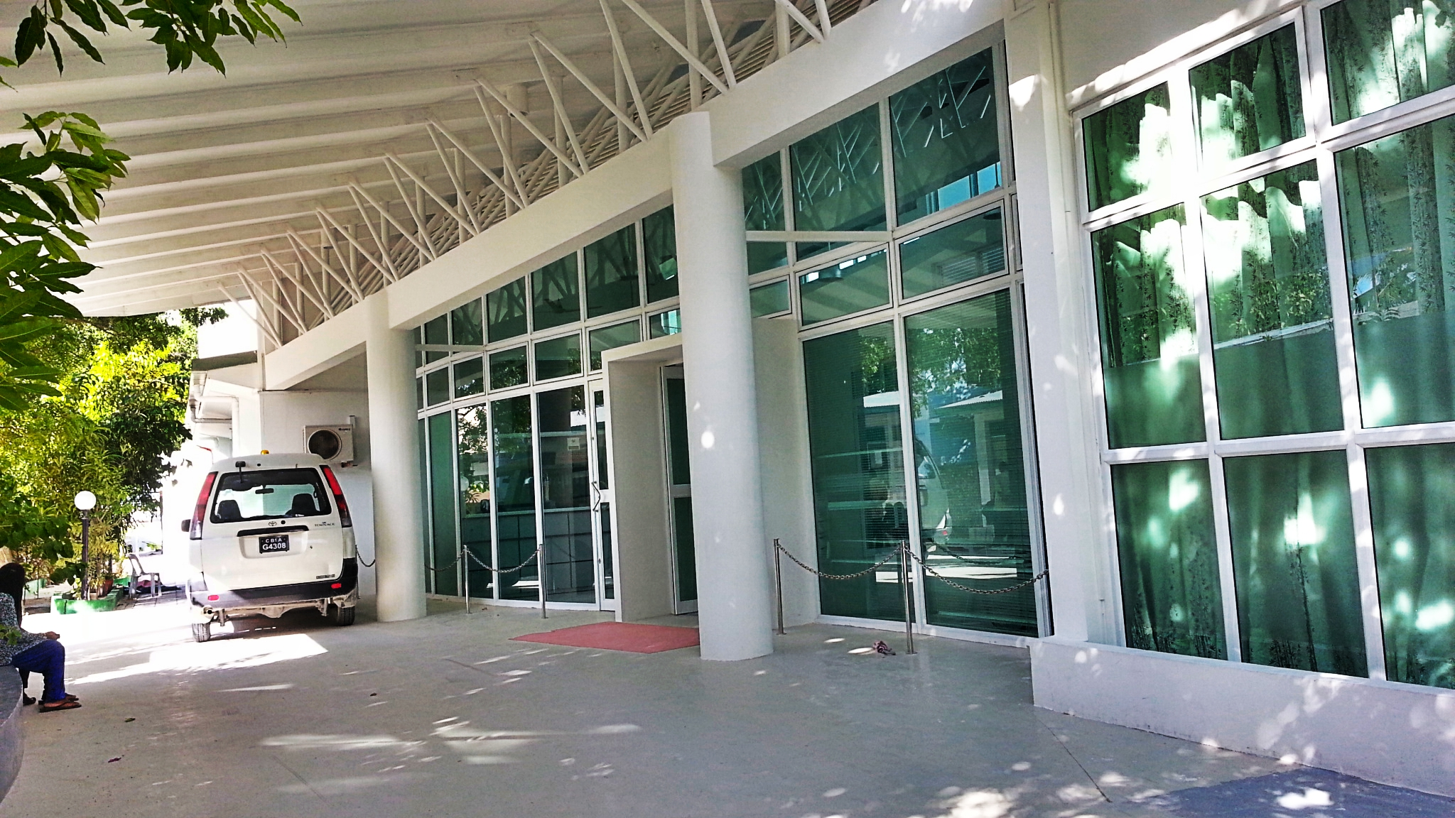 Faadhippolhu Atoll Hospital,Naifaru